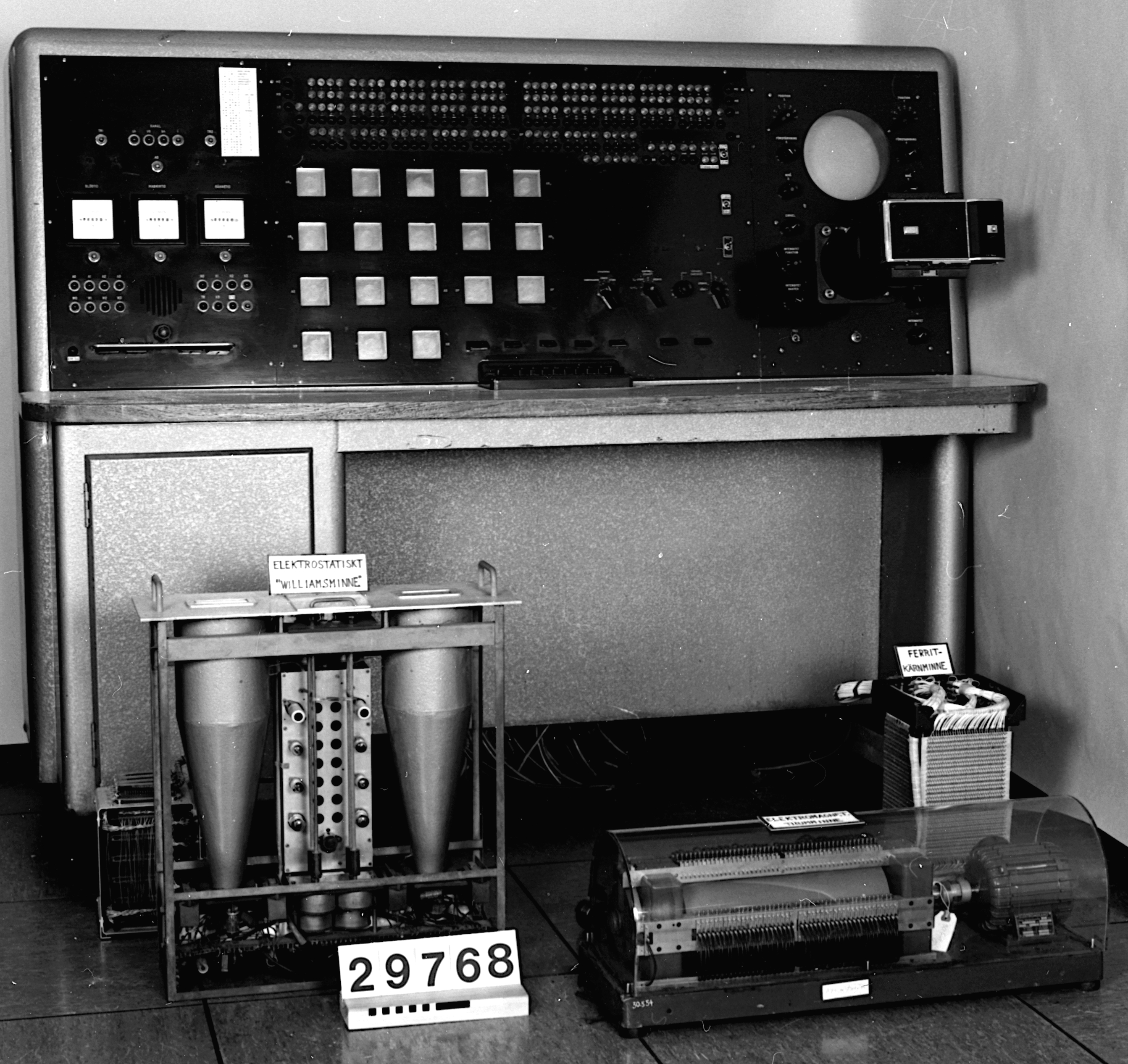 This is some core components of the BESK computer in storage